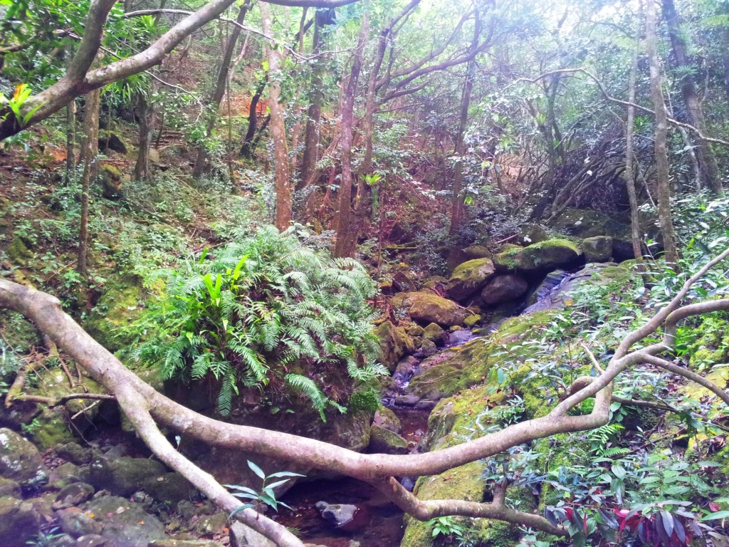 Vallee Ferney indigenous forest